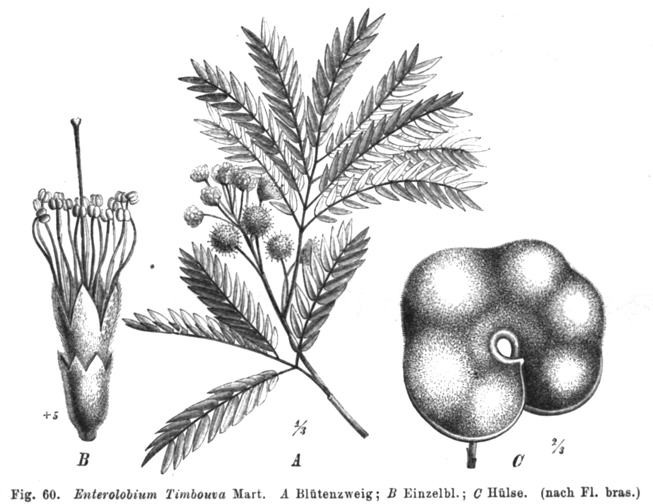 Illustration from book